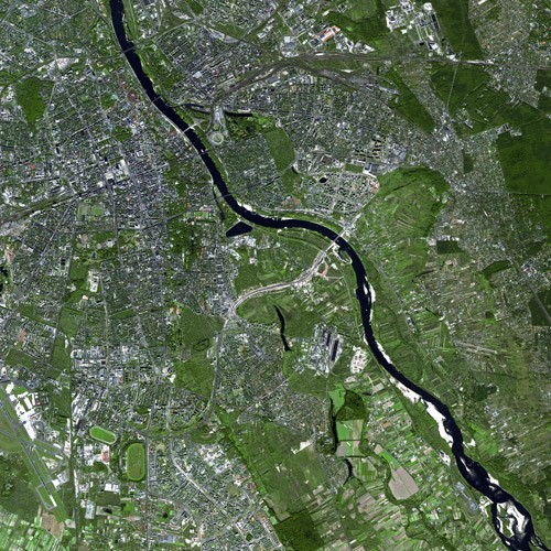 Varsaw by SPOT Satellite